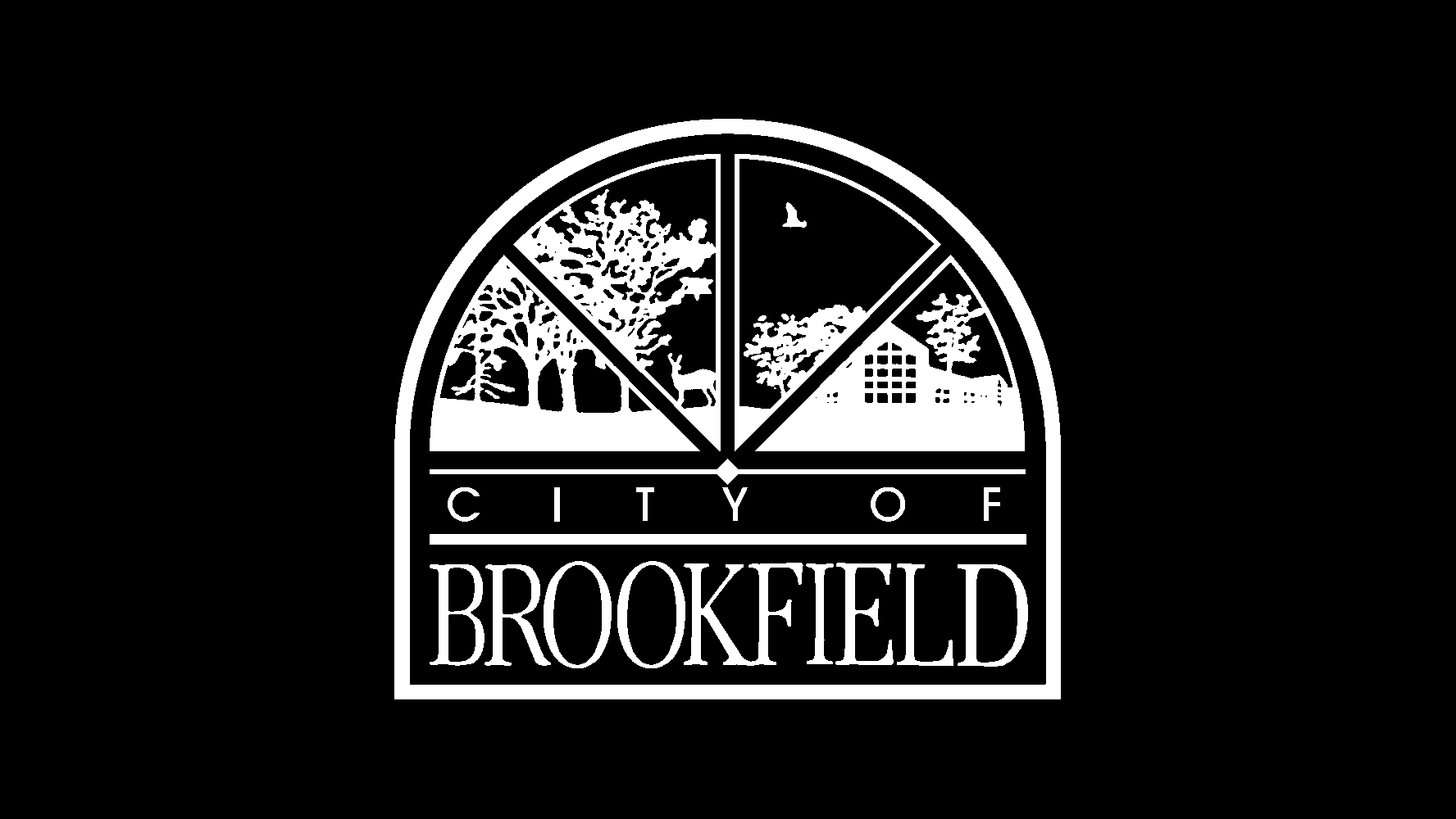 brookfieldflag